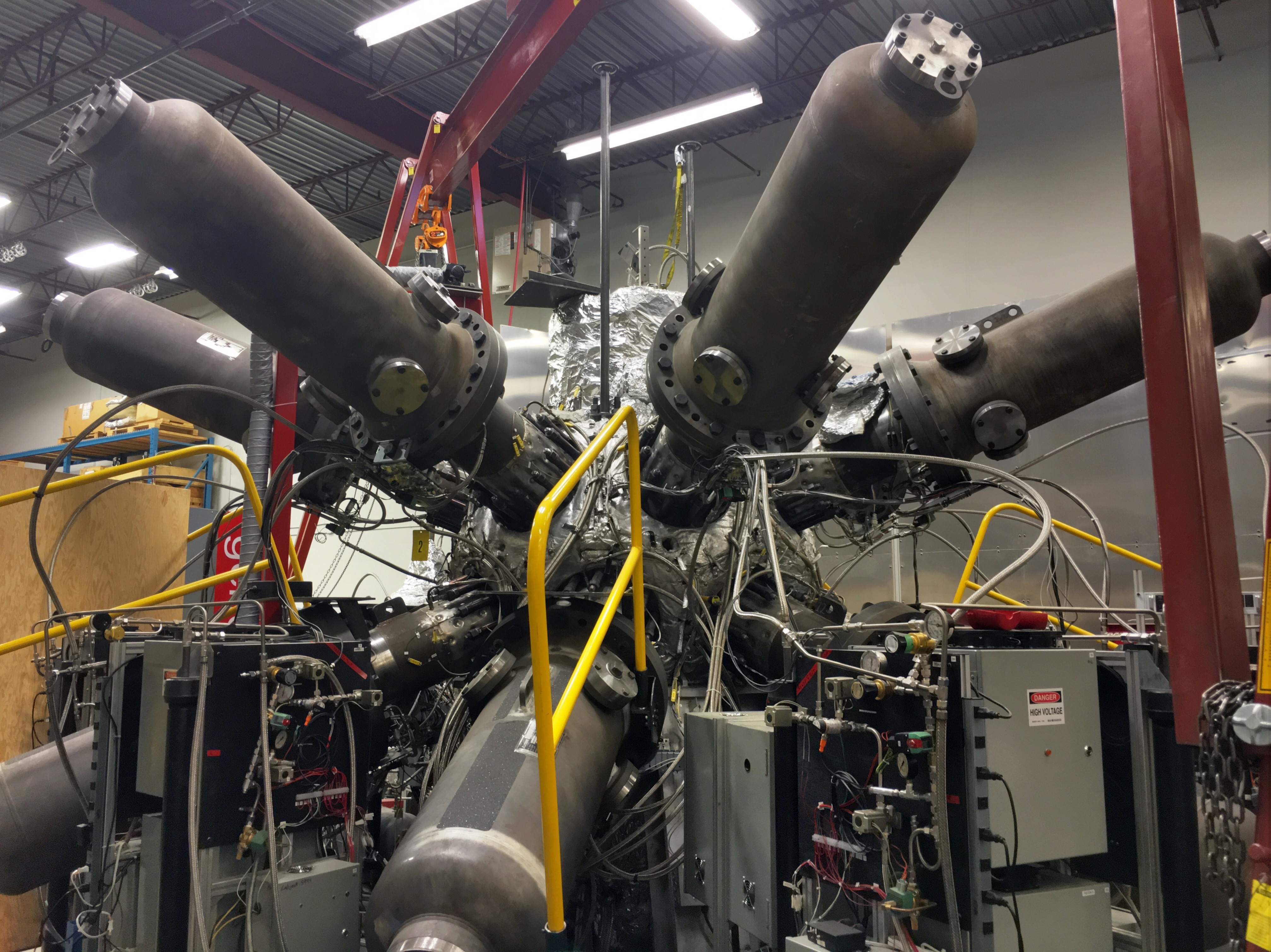 General Fusion reactor for magnetized target fusion. The large pistons are used to pump liquid metal in order to compress the plasma.